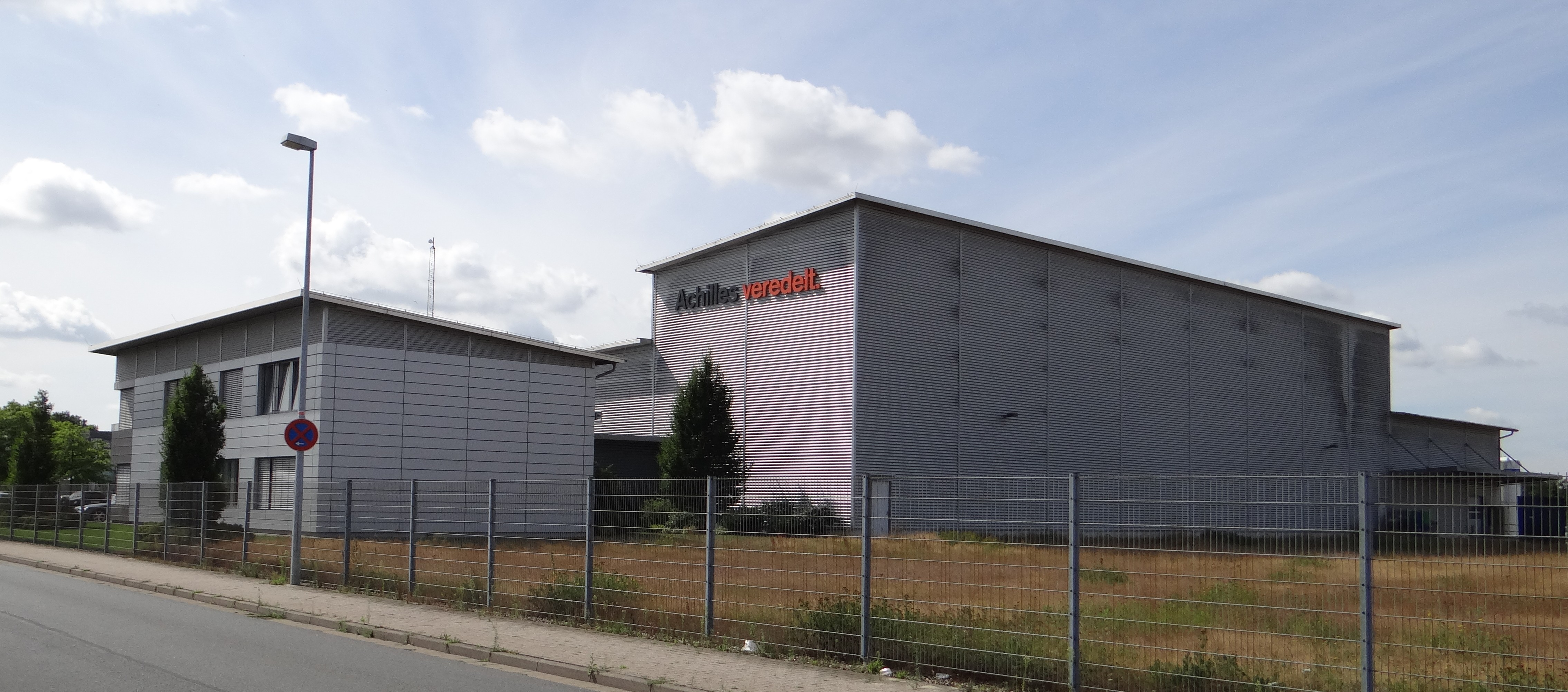 Building of Achilles company in Celle, Germany.